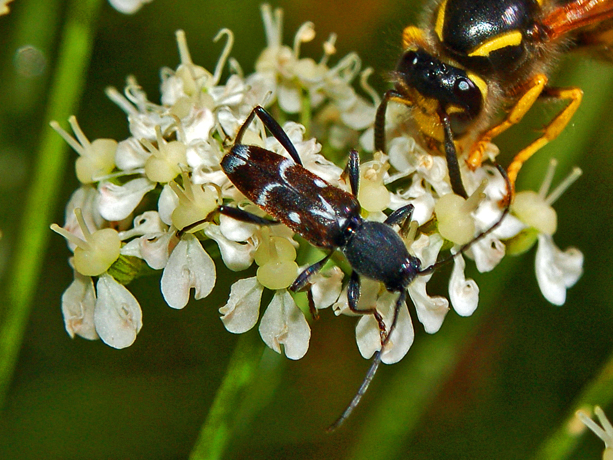 Chlorophorus sartor, male. Parco Regionale dell'Antola, Italy